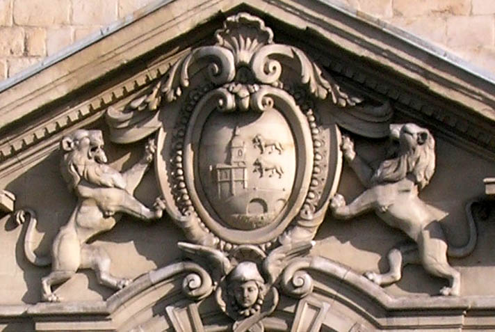 Description: Relieve with the coat of arms of Bilbao (Spain) in the façade of Saint Nicholas church, in the Arenal of Bilbao. Photographer: Javier Mediavilla Ezquibela Date: November 6, 2005.